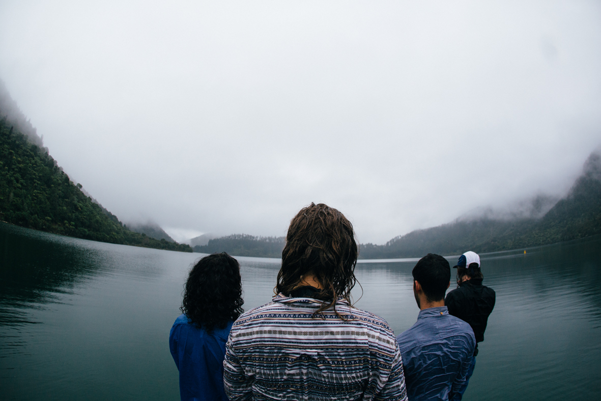 Shot by Richard Hodder The Leers (band)